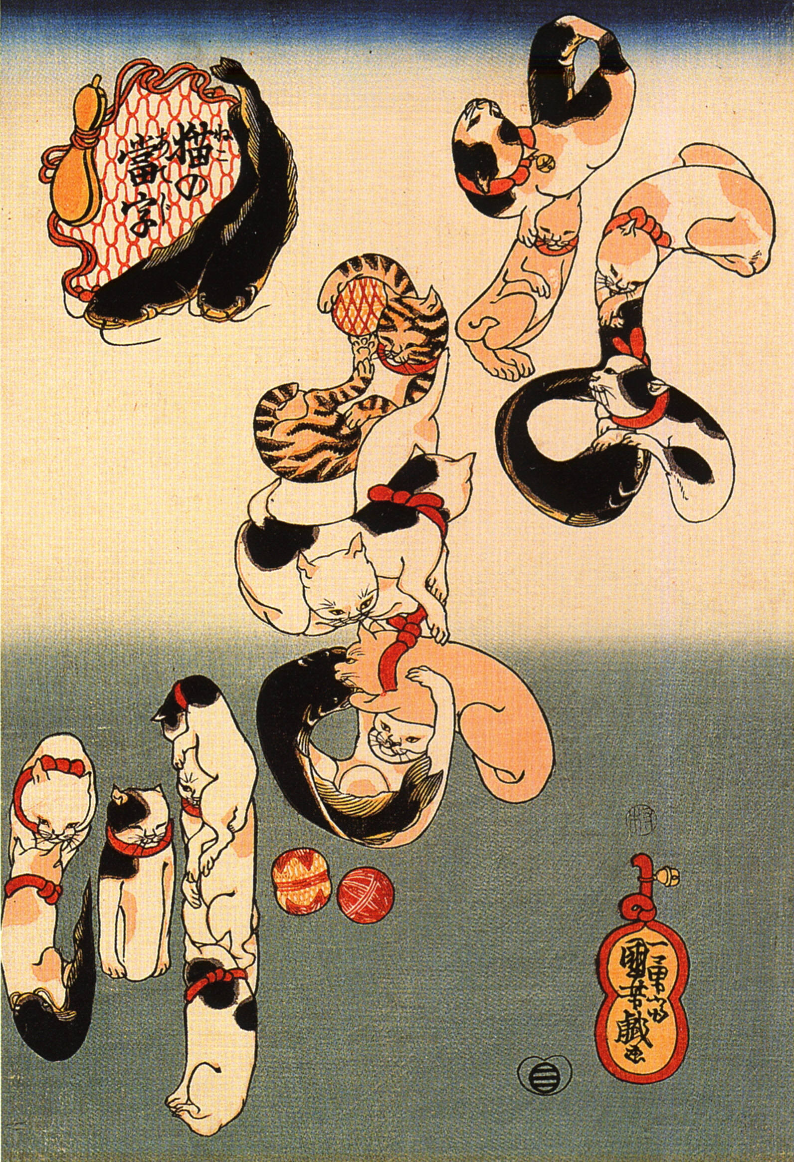 Contorting cats join force to make the hiragana syllables なまづ (from top-right), meaning "catfish".